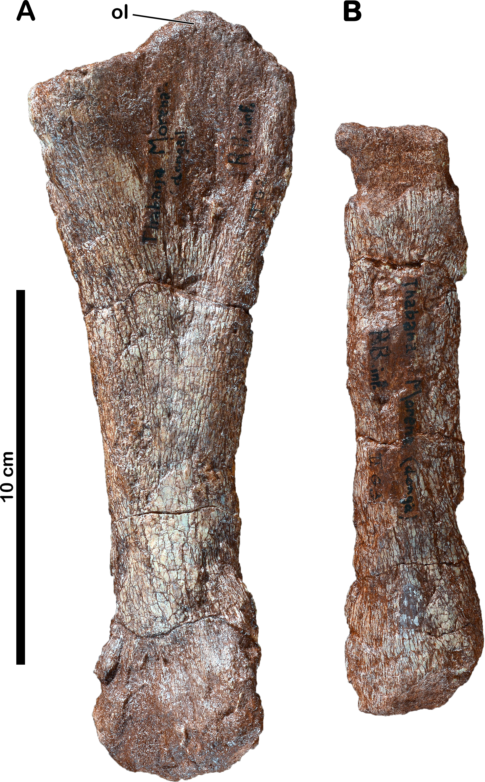 Forelimb bones of Meroktenos. (A) Left ulna, MNHN.F.LES351b, in medial view. (B) Left? radius, MNHN.F.LES351c. ol, olecranon. (Photo credit: L Cazes.)